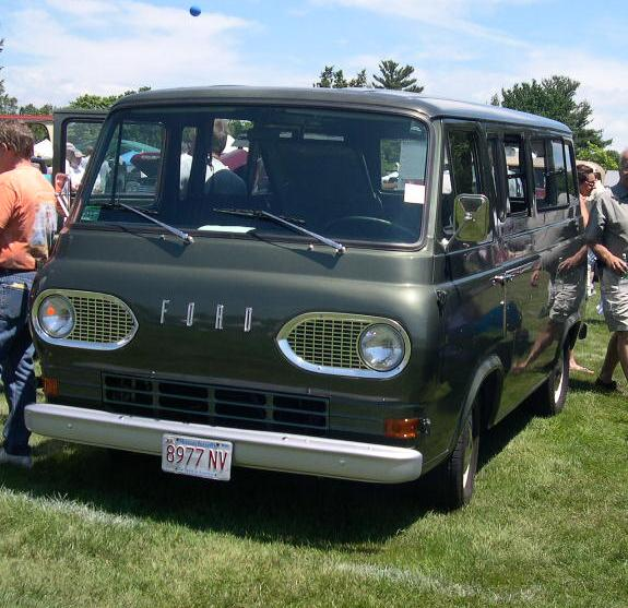 1963 Ford Falcon Van Source: Photographed at the Bay State Antique Automobile Club's July 10, 2005 show at the Endicott Estate in Dedham, MA by User:Sfoskett